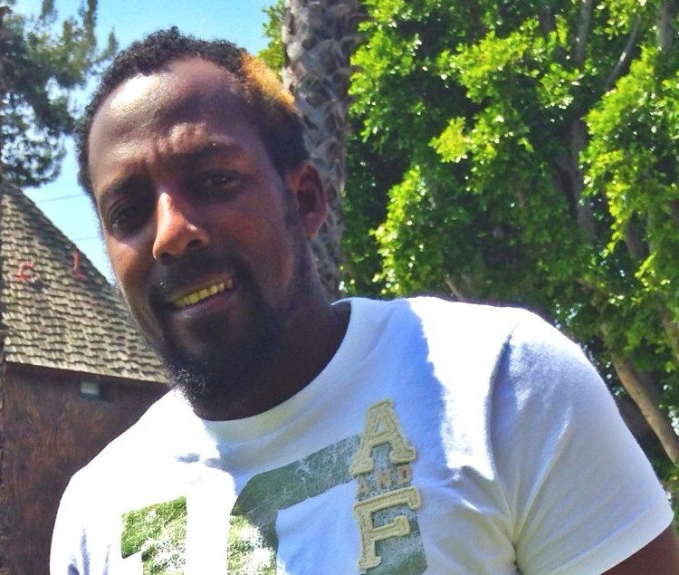 VLADIMIR GUERRERO PLAYING CATCH AT THE OC DUGOUT IN SOUTHERN, CALIFORNIA ON 3/29/14.